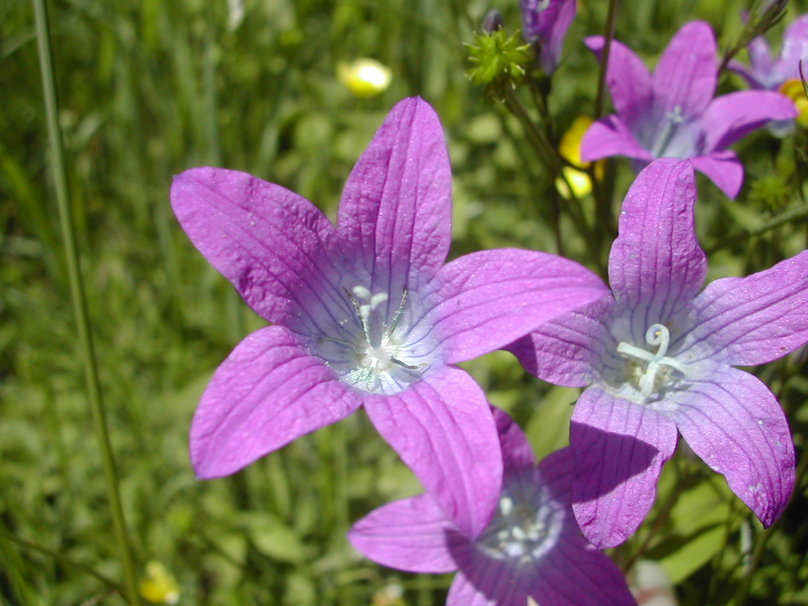 Campanula patula (Campanulaceae) flowers close up